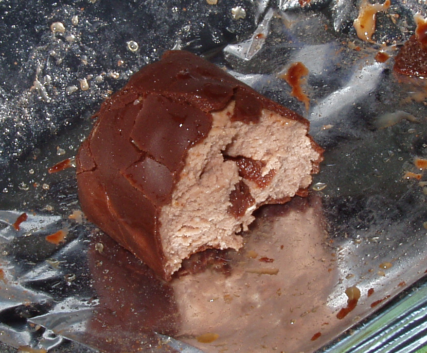 Half of a curd snack